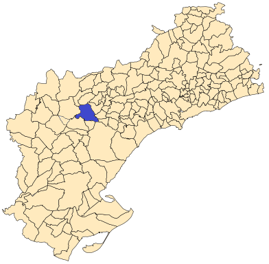 Garcia